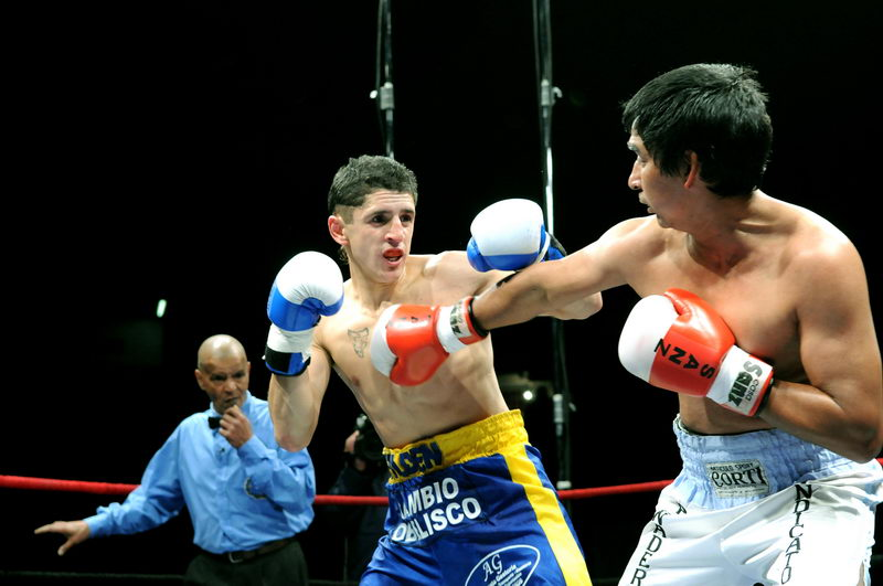 Men's boxing at the Palacio Peñarol, in Montevideo, Uruguay. Julio Paz (URU) vs. Carlos Palacios (ARG)